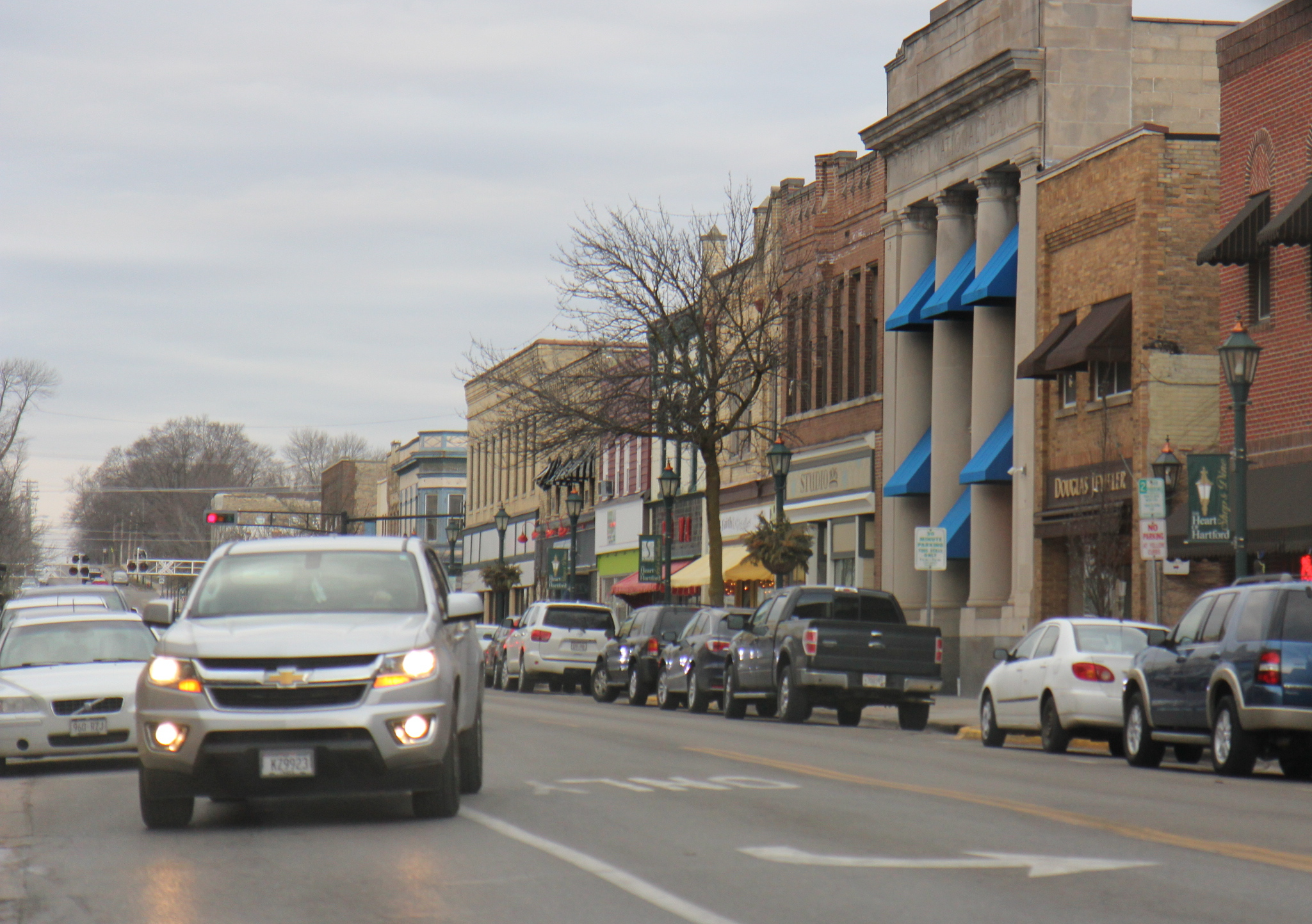 Looking north at downtown Hartford, Wisconsin on Wisconsin Highway 83.